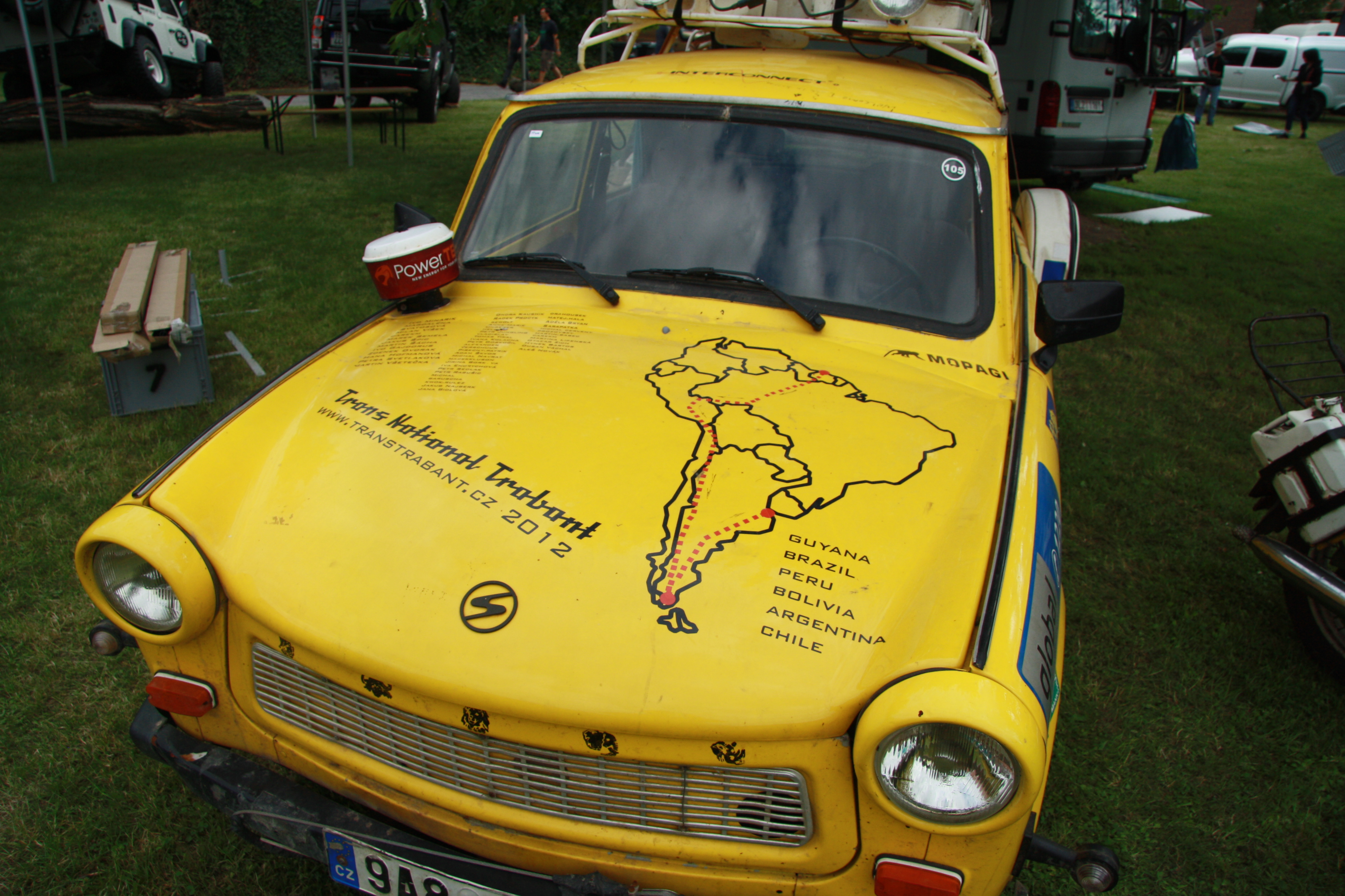 Map of South America expedition at Transtrabant Trabant at Legendy 2014.